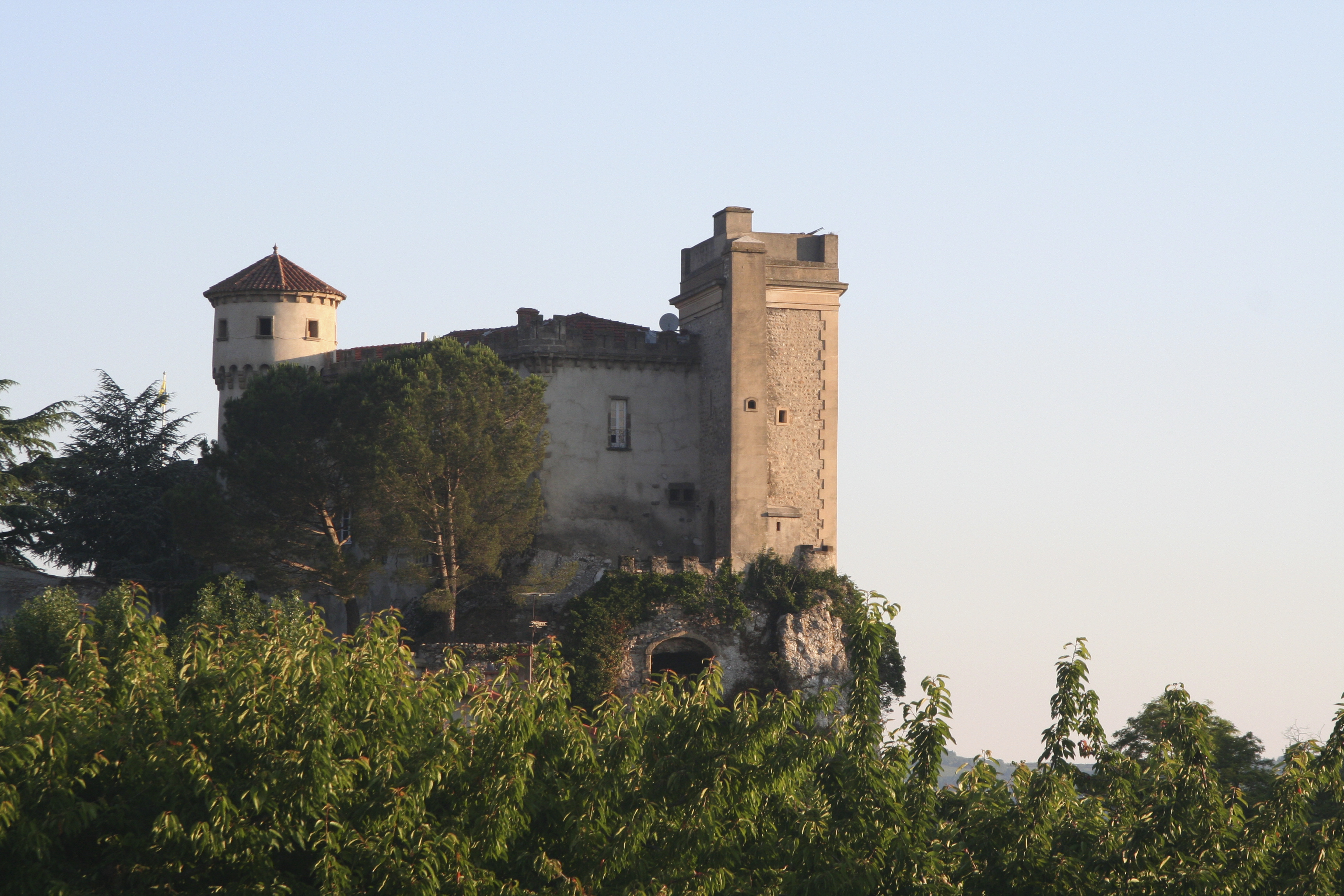 castle of châteaubourg